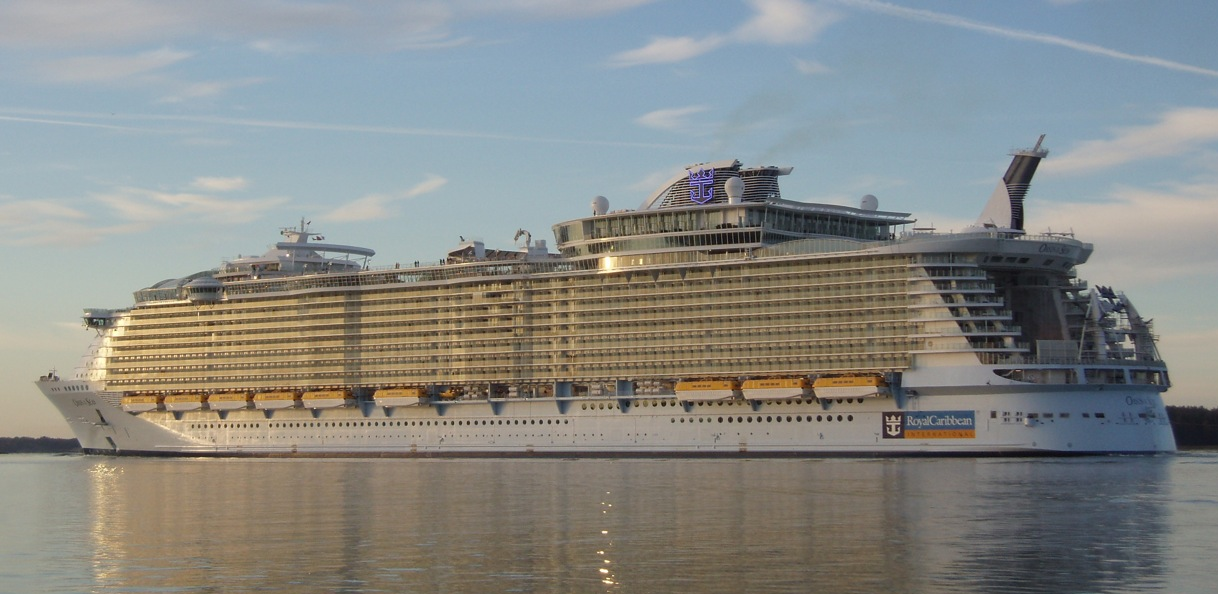 MS Oasis of the Seas at front of Saaronniemi,Ruissalo, Turku, Finland. Its telescopic funnels are lowered (in this pic) to provide clearance for the ship as it passed underneath the Great Belt Fixed Link, in Denmark.